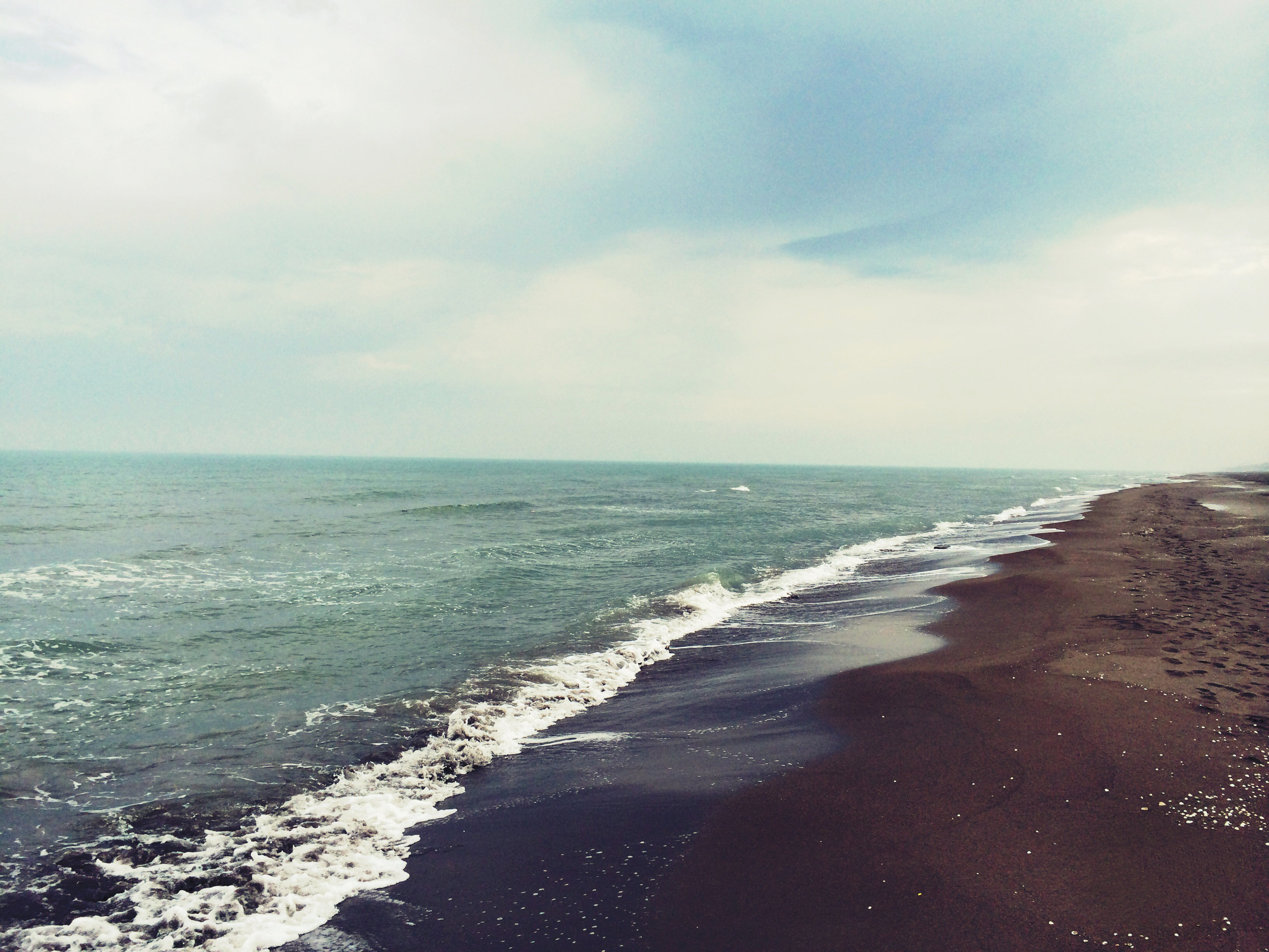 Caspian sea from Khezershahr beach.